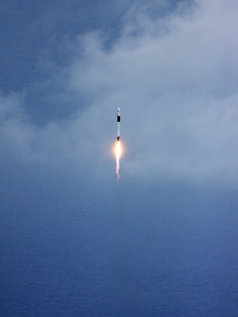 SpaceX Falcon 1 Flight 5 photographed from the air shortly after launch as it rises over Omelek Island, Marshall Islands.